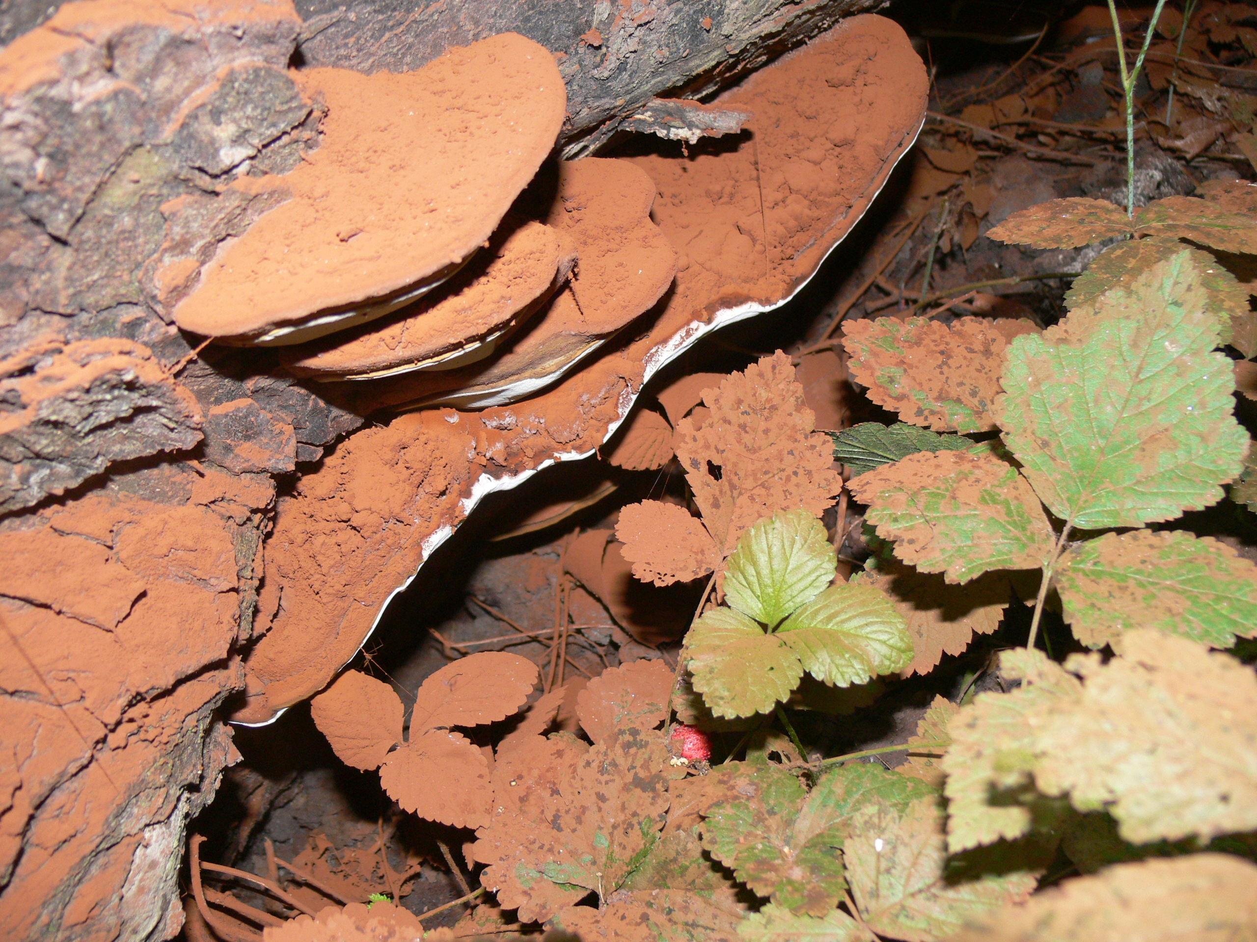 Photo made in the "wood of the Citadel" (Bois de la Citadelle) in Lille (north of france), just after sporulation of fungi type "polypores." The weather was orageux. it occurred just before the rain. In the total absence of wind. spores are extremely light (texture of very fine like chocolate powder). It is a sort of light brown cloud that falls around trunks.